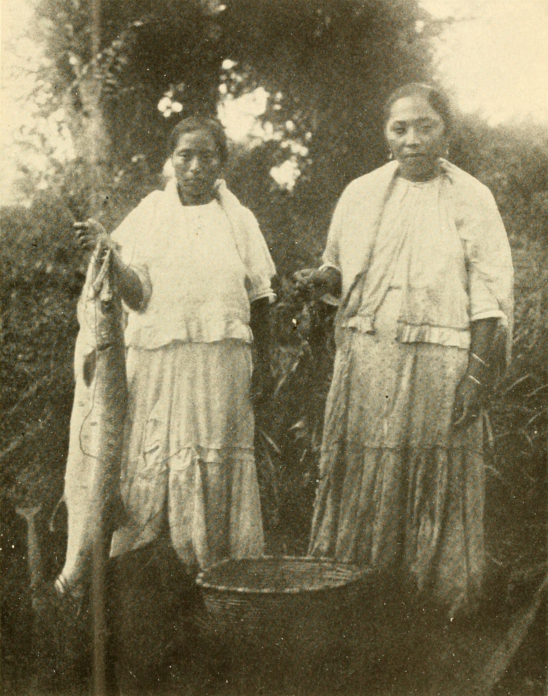 Photo from Gann's "The Maya Indians of southern Yucatan and northern British Honduras"